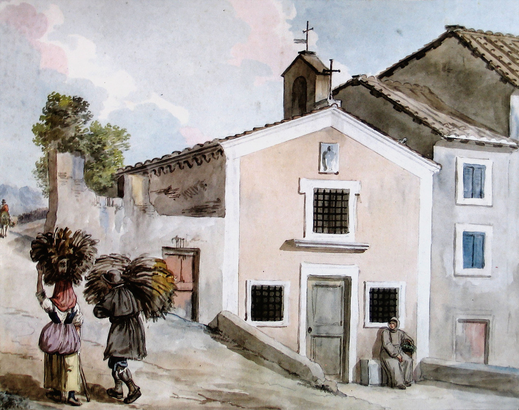 San Giovanni Battista degli Spinelli by Achille Pinelli (1834)